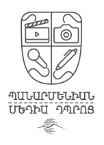 Panarmenian Media School logo